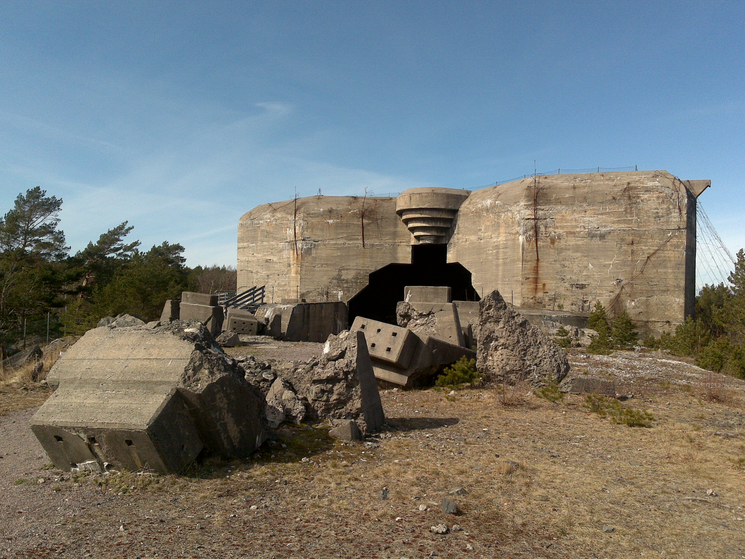 casemate at Batterie Vara, Kristiansand (Norway).